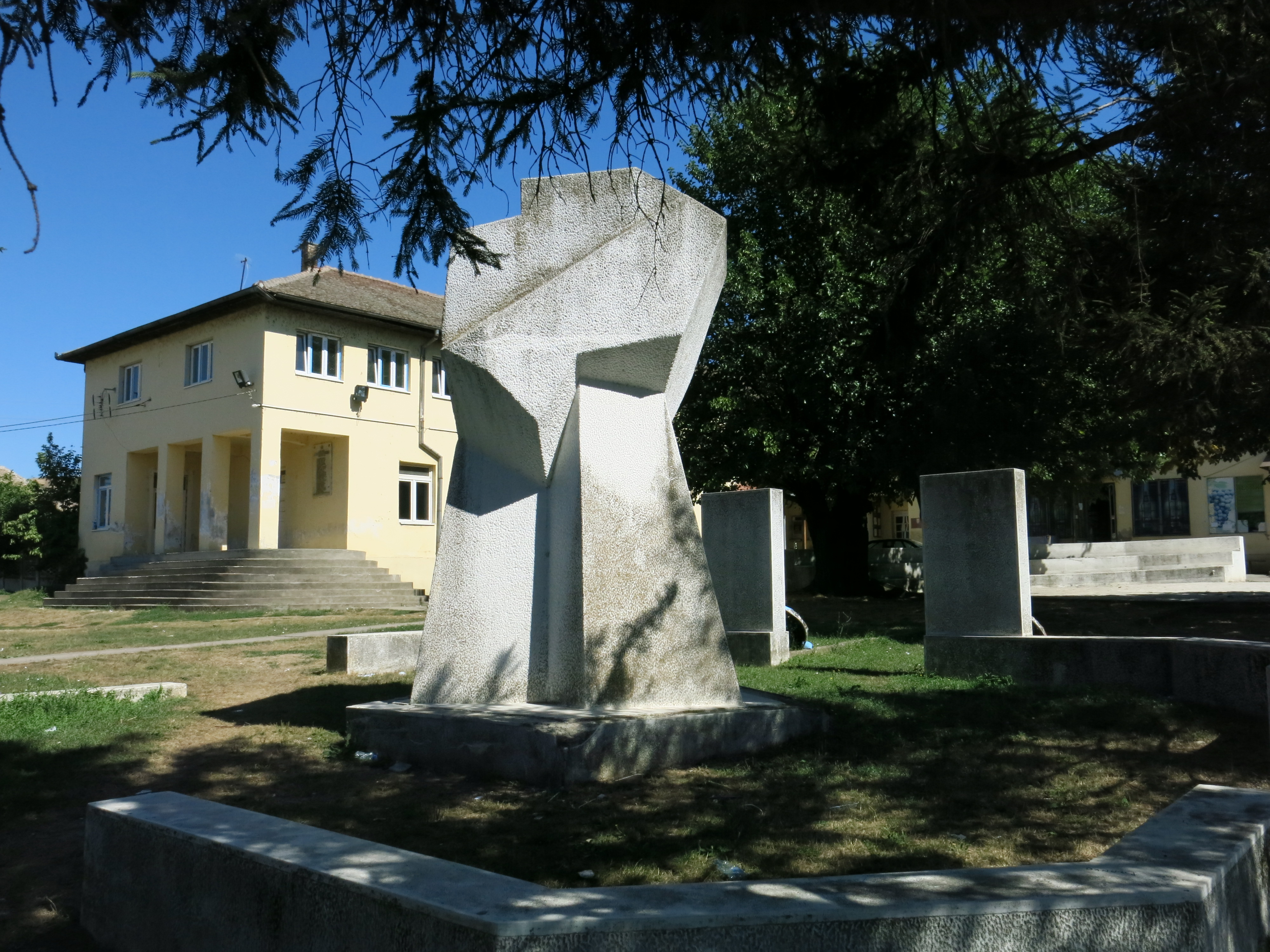 Vodanj, Monument to the fallen fighters of WWII